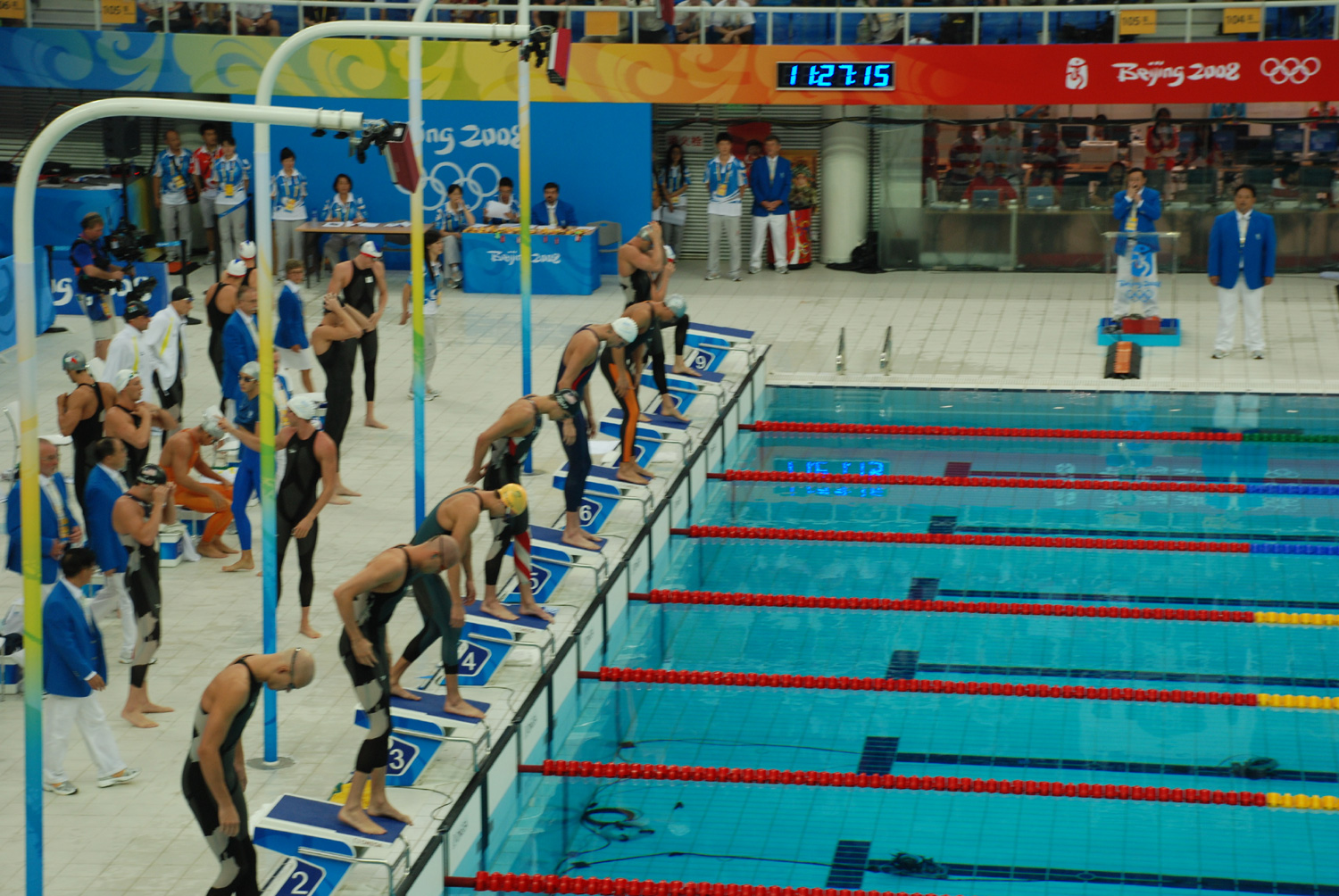 Start of the 4x100 meters relay in the Watercube, Beijing, august 11th 2008. Michael Phelps is standing in the number 4 lane. See also File:Phelps4x100.jpg.